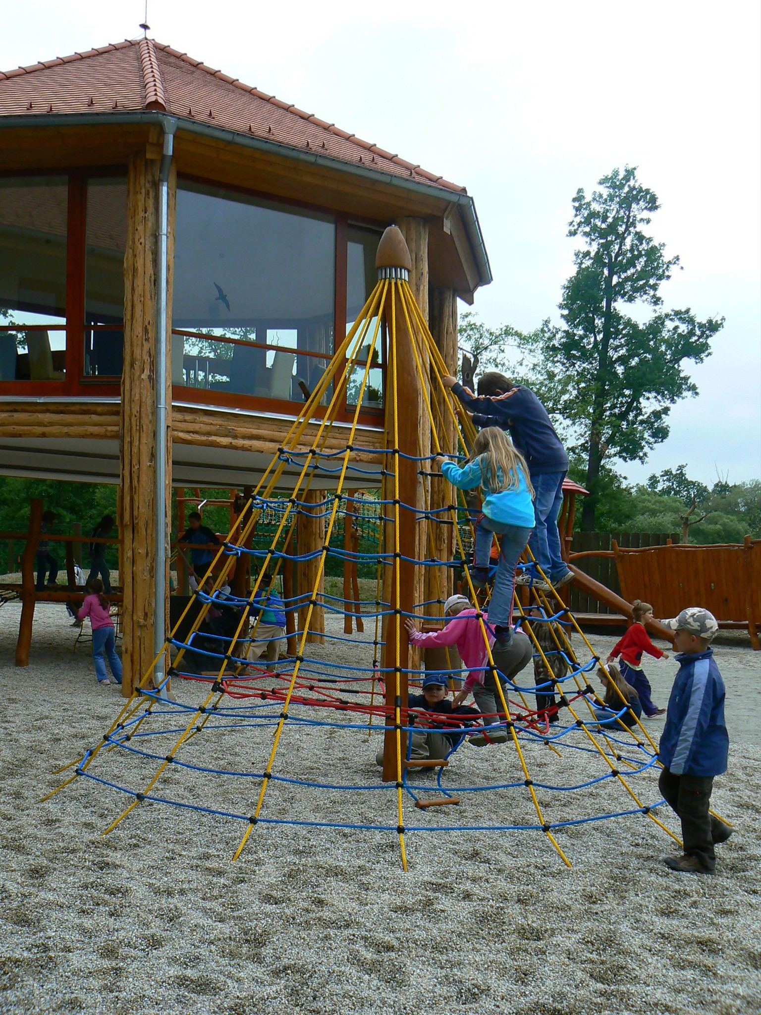 Playground at Zoo Ohrada, Hluboká nad Vltavou, Czech Republic